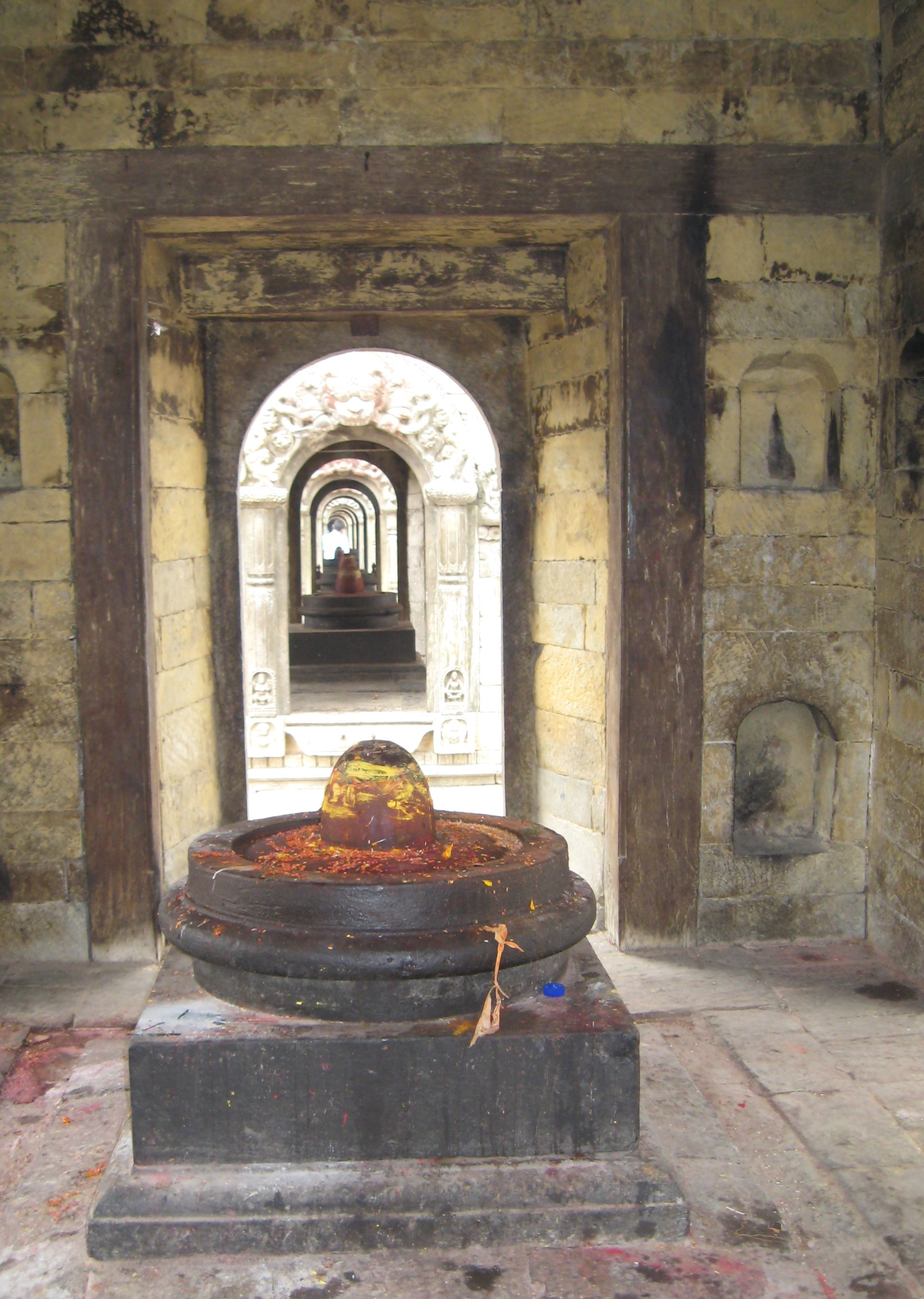 Shivalingam in Pashupatinath